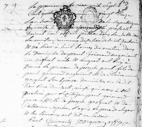 Birth entry of Joseph Paul Gaimard in Saint-Zacharie